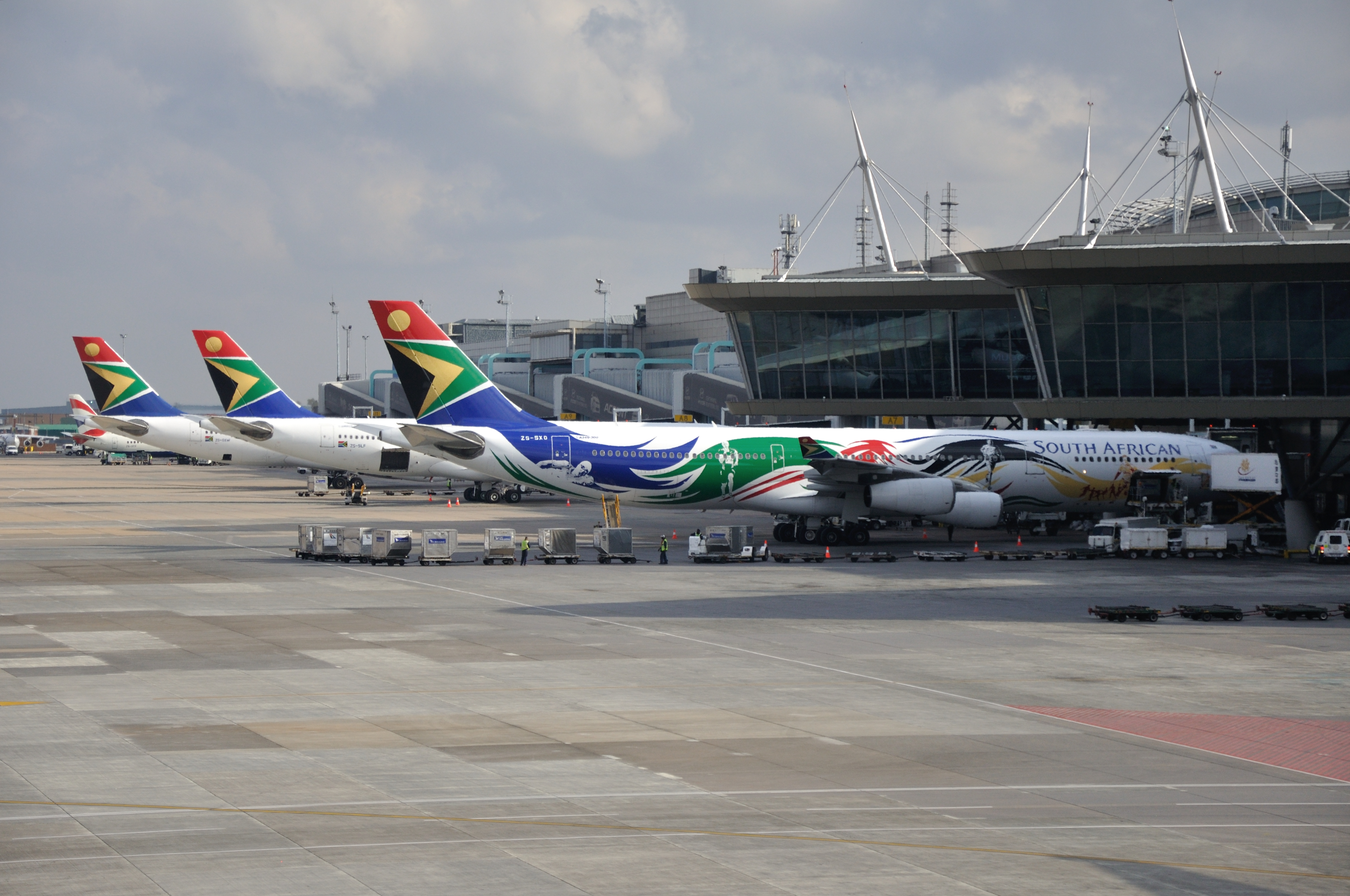 South Africa, spotting at O.R. Tambo International Airport